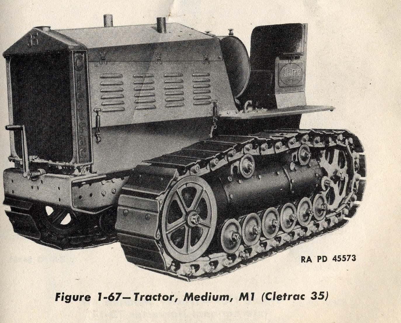 m1 Medium Tractor Clevland tractor co. Model 35